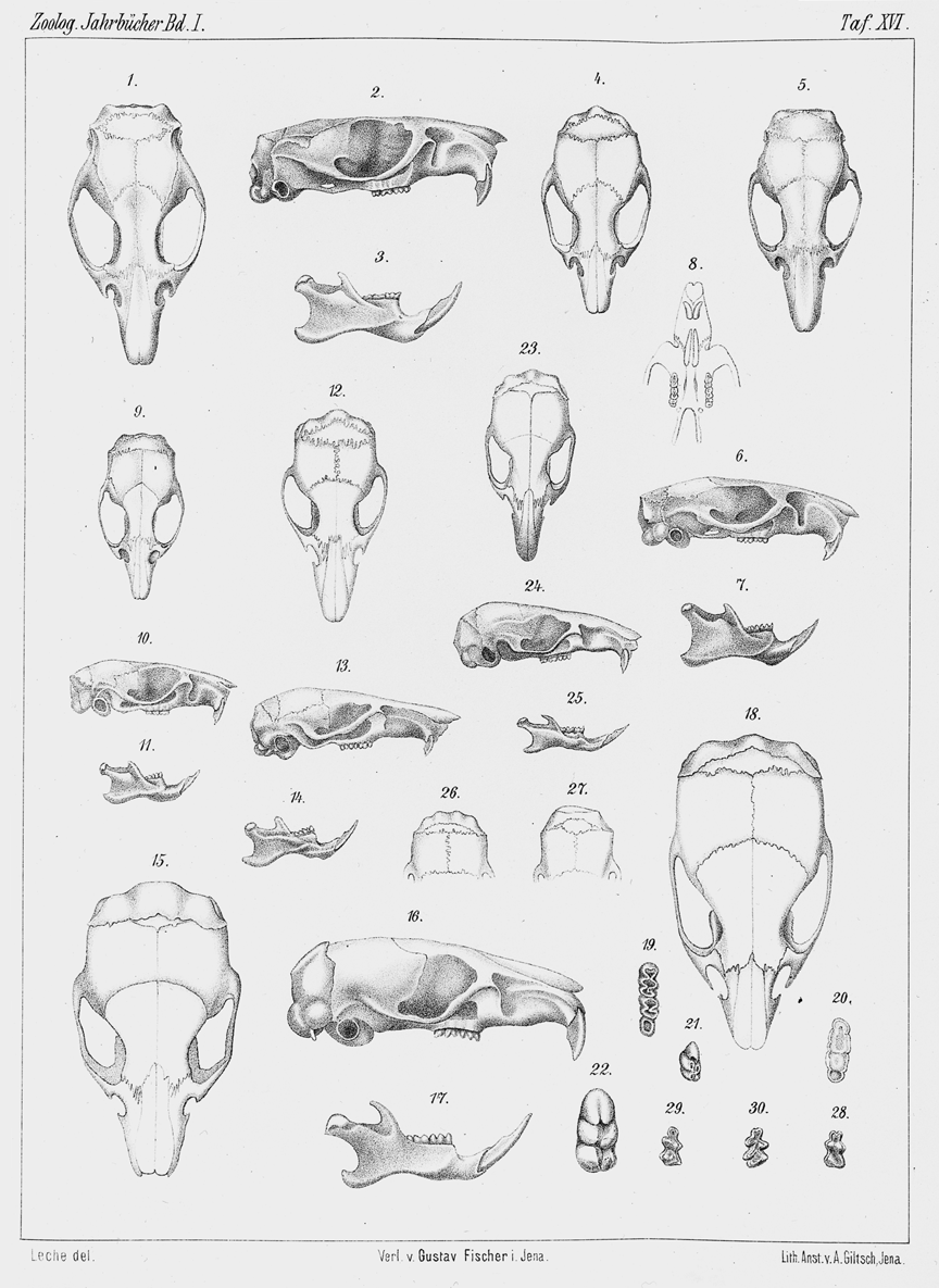 Plate with several illustrations of sigmodontine rodents. Identifications: Figs. 1-4: Hesperomys ratticeps = Sooretamys angouya (Syn. Oryzomys angouya). Figs. 5-8: Hesperomys laticeps var. intermedia = Euryoryzomys russatus (Musser et al., 1998, fig. 137, caption). Figs. 9-11: Hesperomys flavescens = Oligoryzomys flavescens Figs. 12-14: Hesperomys dorsalis = Delomys dorsalis Figs. 15-22: Hesperomys subterraneus var. henseli = Thaptomys nigrita Figs. 23-28: Hesperomys arenicola = Akodon azarae Figs. 29-30: Hesperomys nasutus = Oxymycterus nasutus Identifications are given by Leche (1886) and updated to current taxonomy. He may have misidentified some specimens.